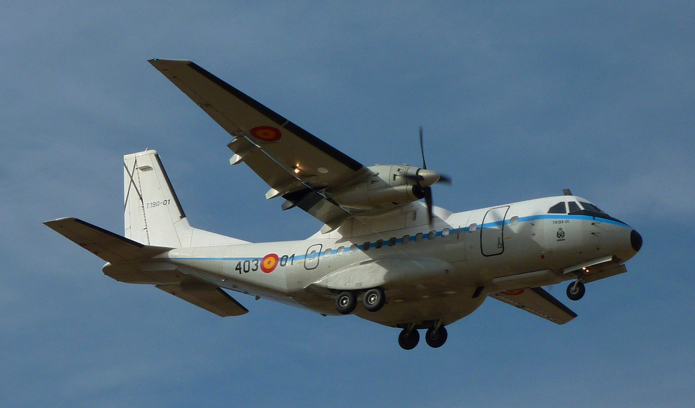 Spanish Air Force photogrammetry CN-235.